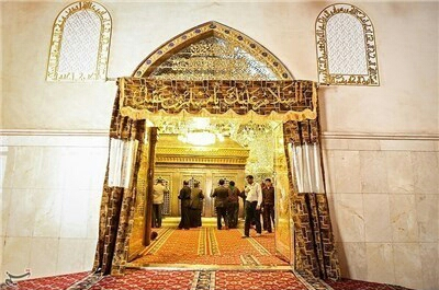 muslim bin ageel in Kufa mosque